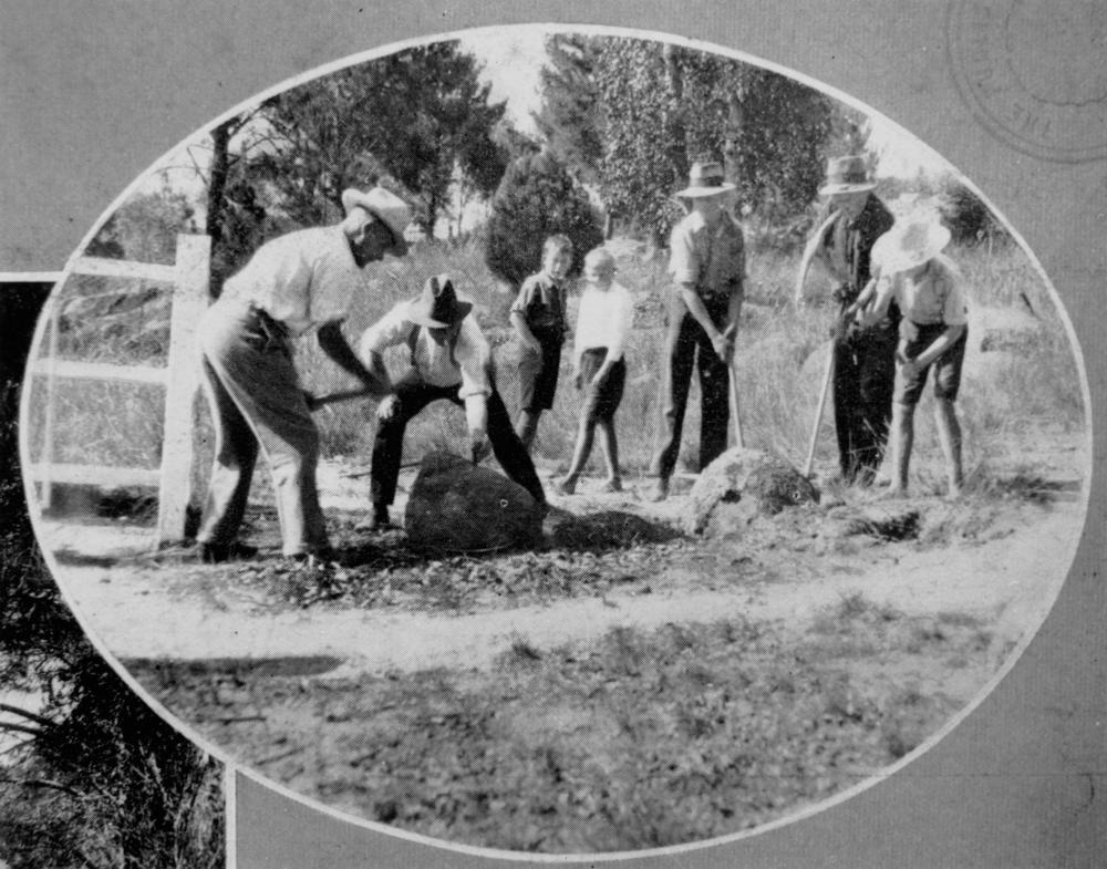 Working bee at the War Memorial Park Stanthorpe, March 1933. Two small boys watch as the men try to remove large granite rocks with crowbars and shovels.